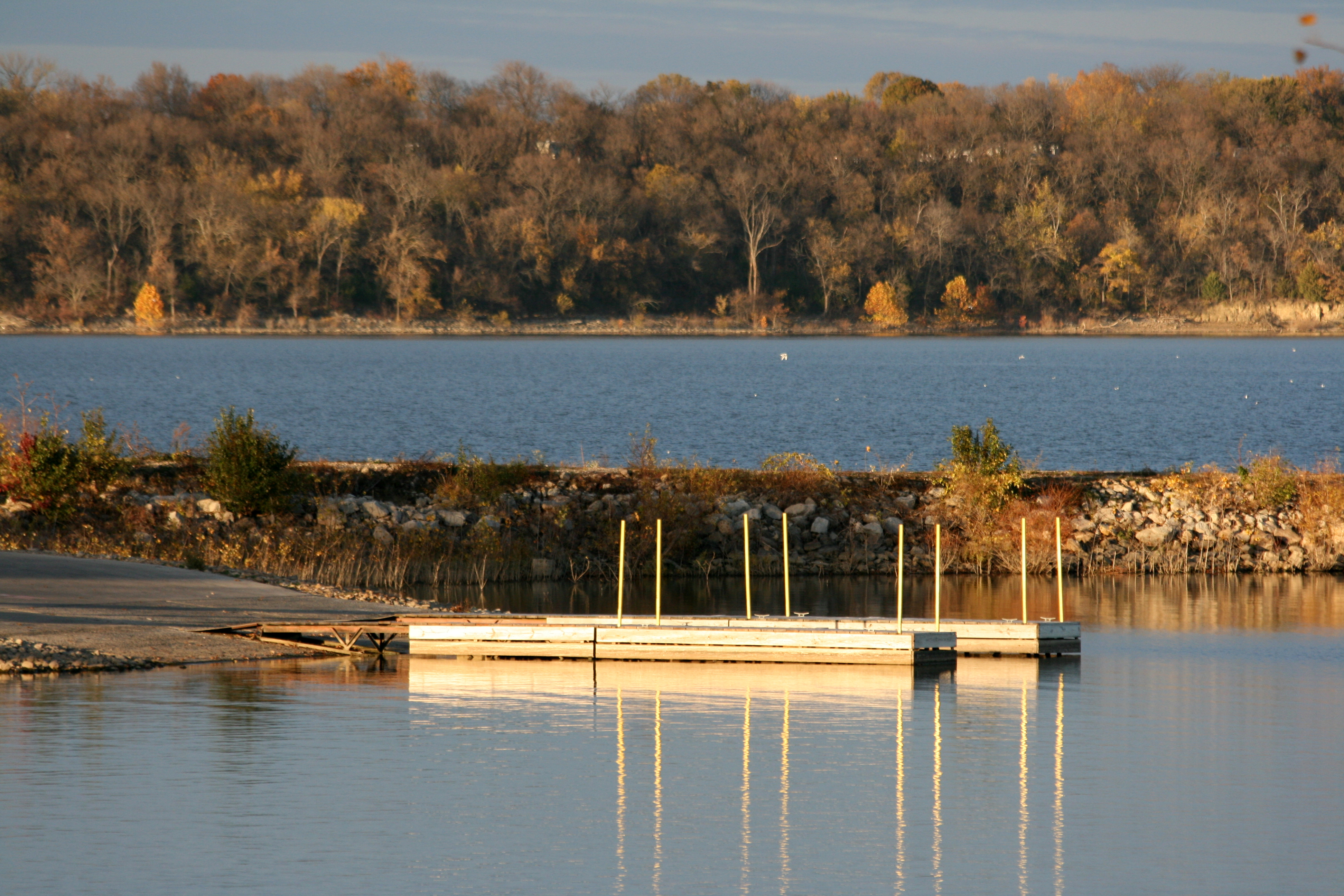 Clinton State Park, KS